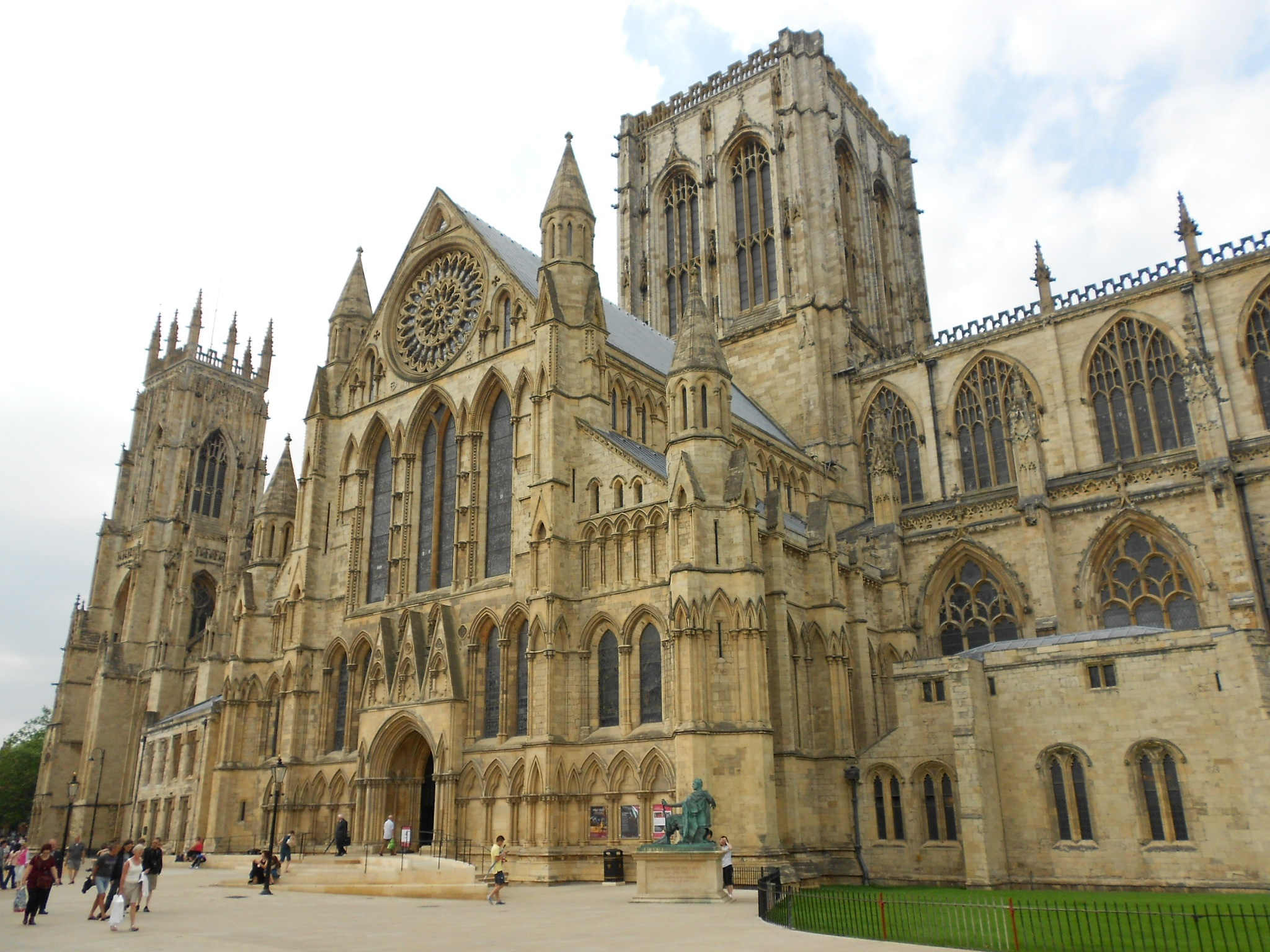 York Minster in 2013